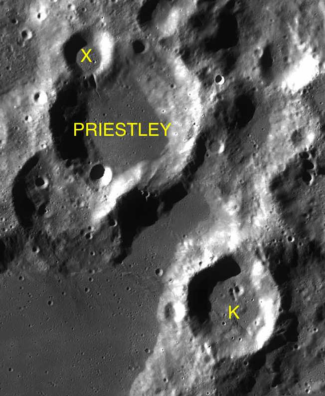 Part of the chart LAC-130 used for the presentation